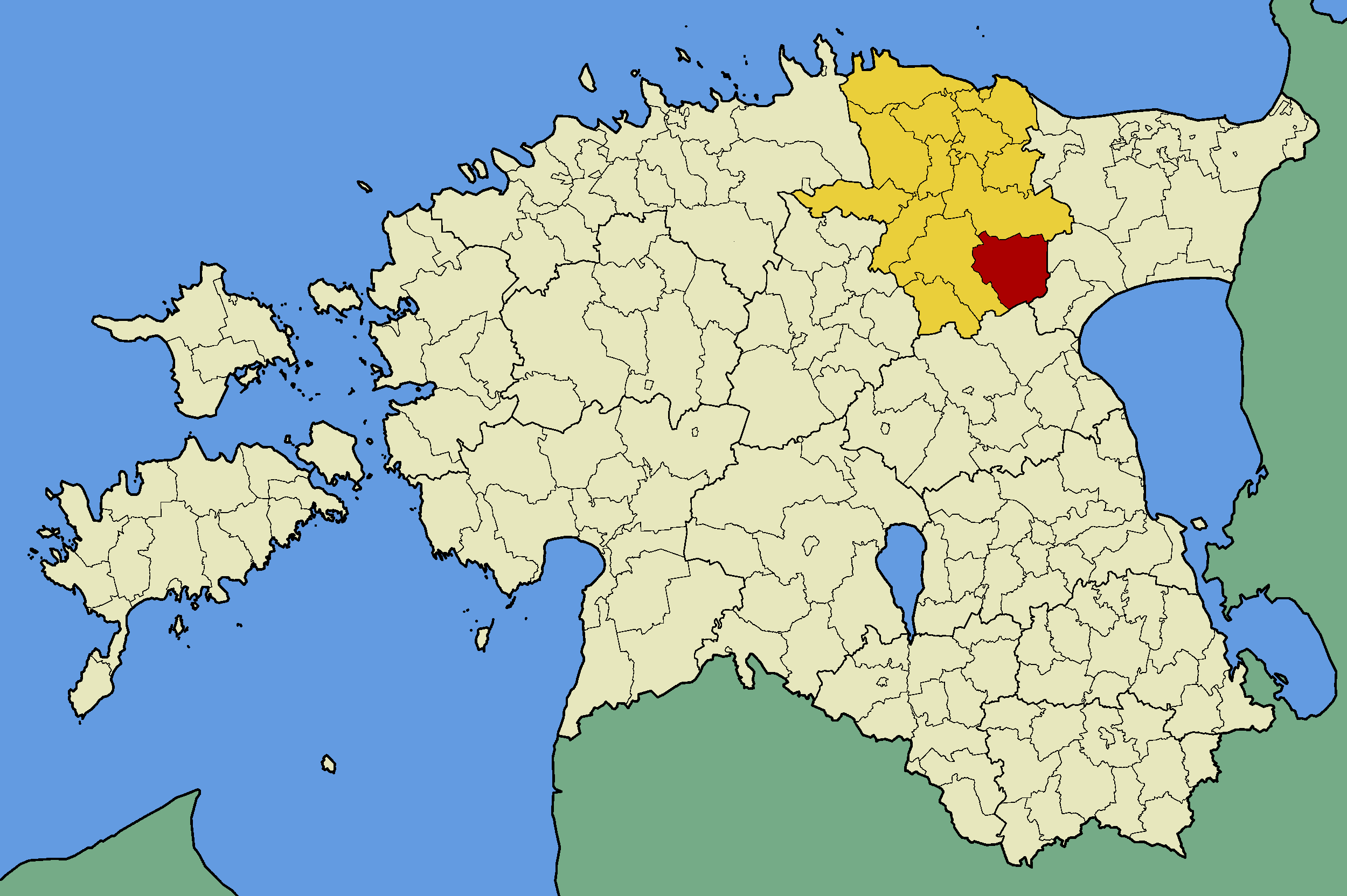 Map of Estonia with borders of municipalities (parishes). Lääne-Viru county and Laekvere municipality emphasized.